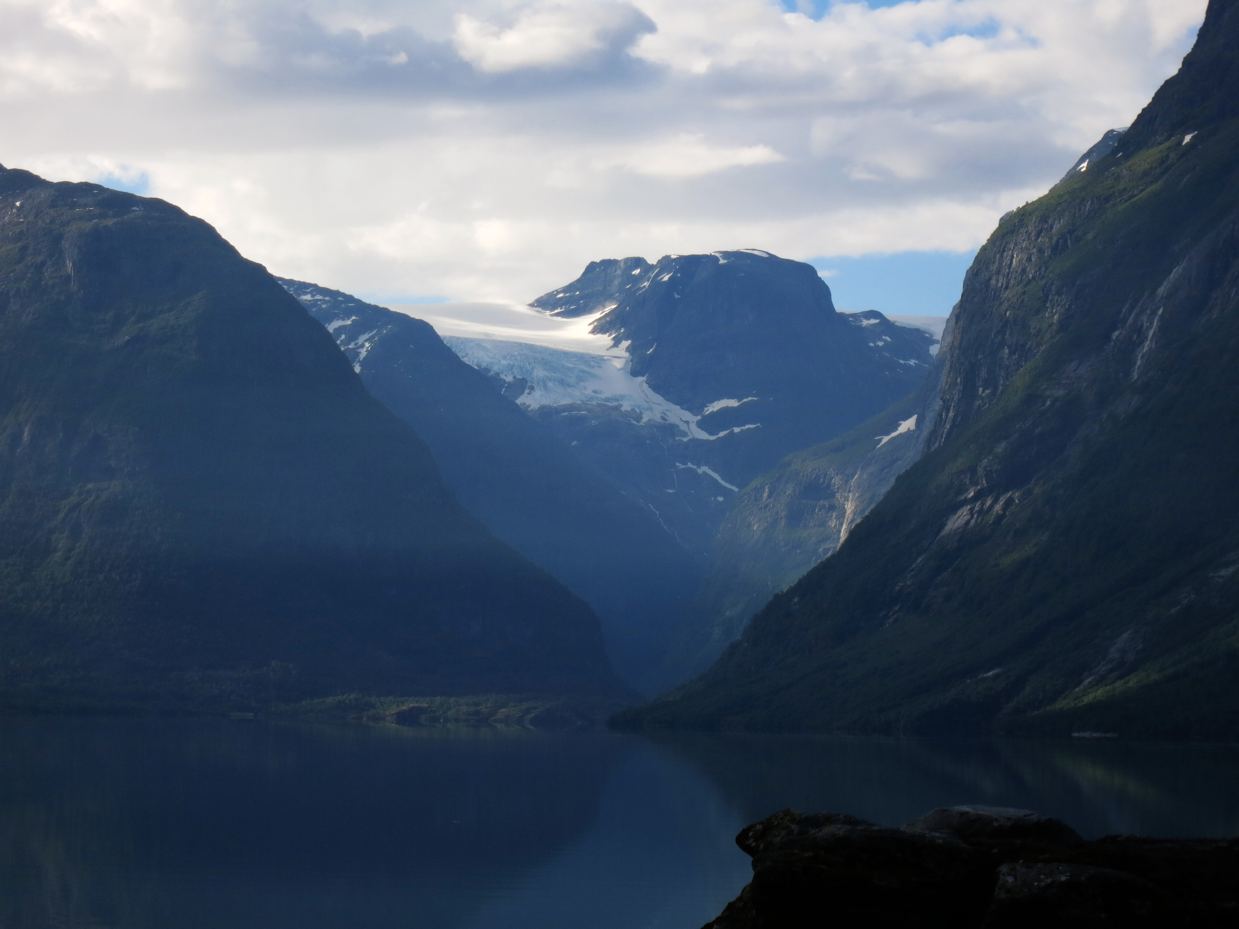 Kjenndalskruna as seen from Lovatnet